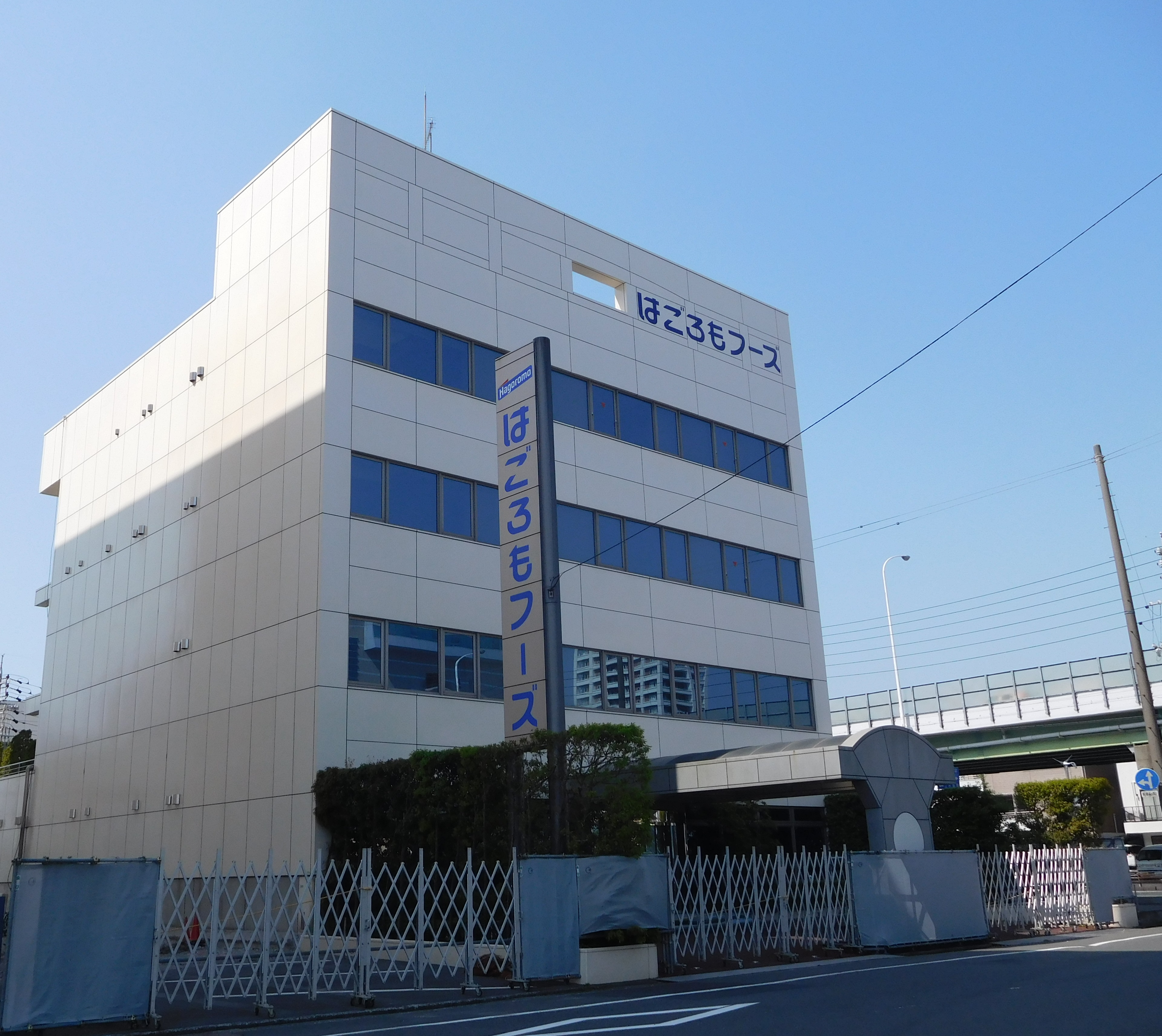 This is the head office of Hagoromo Foods Mt. Fuji Pasta Plant in Shimizu-ku, Shizuoka, Japan.